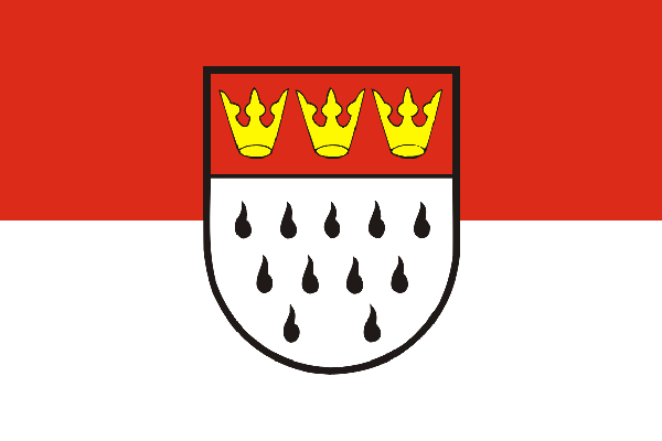 Flag of the city of Cologne It is easy to put a border around this image: File:Koeln Flagge.gif|border|100px